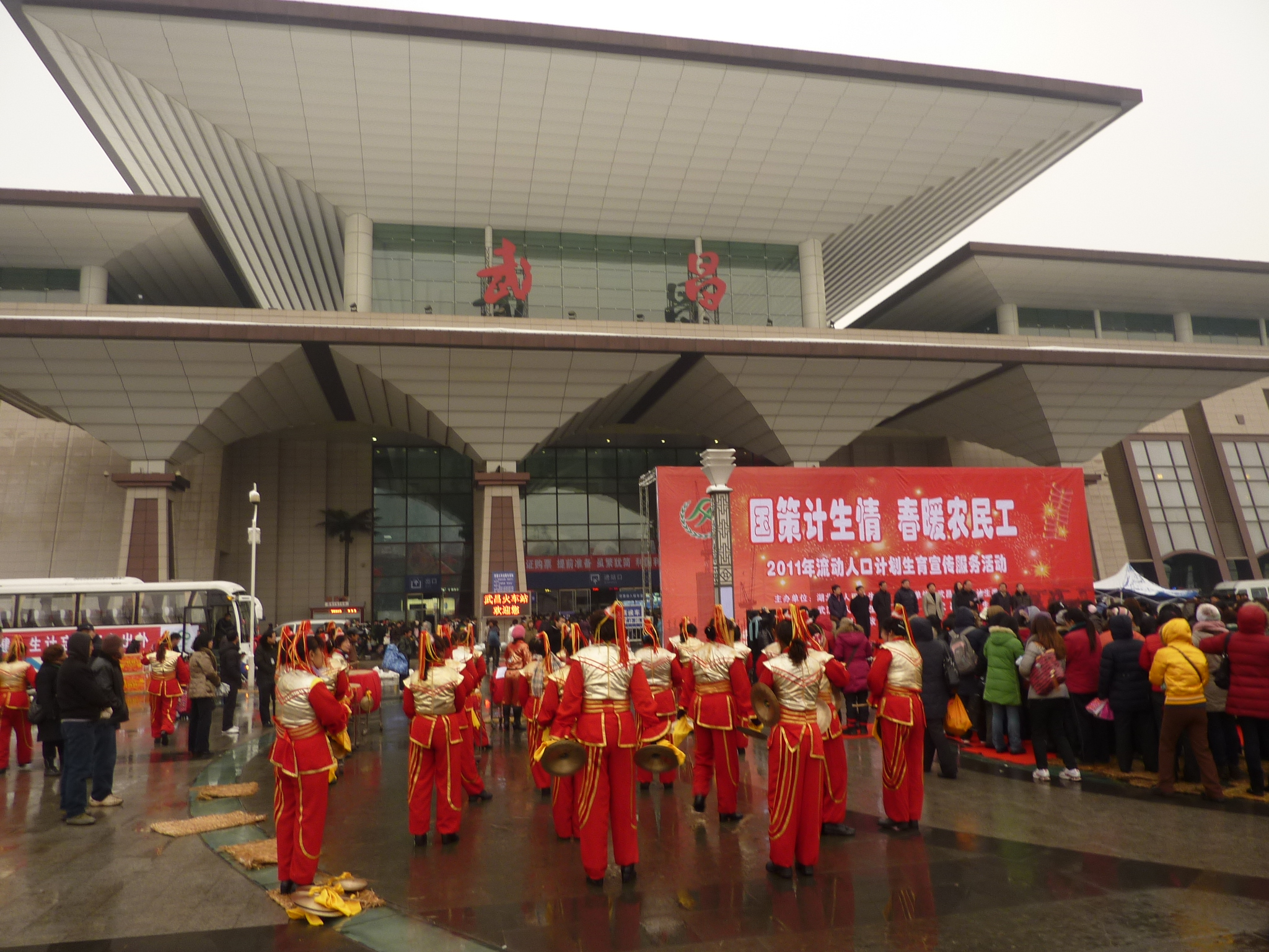 "Year 2011 campaign for dissemination of family planning information among migrant population." An event held on a January morning in fron of the Wuchang Train Station (western square), complete with an orchestra, speeches from Hubei provincial officials, and giving out of free calendars, condoms, etc. to the traveling public.